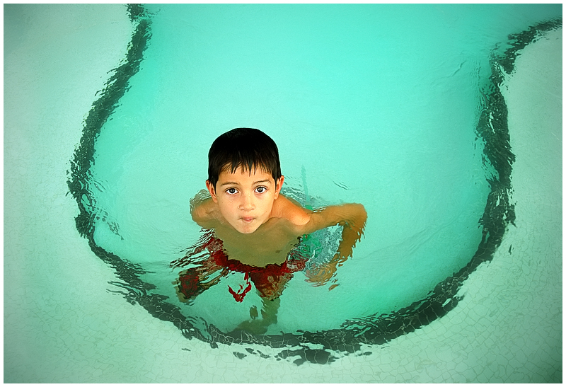 A boy in a children's swimming pool.